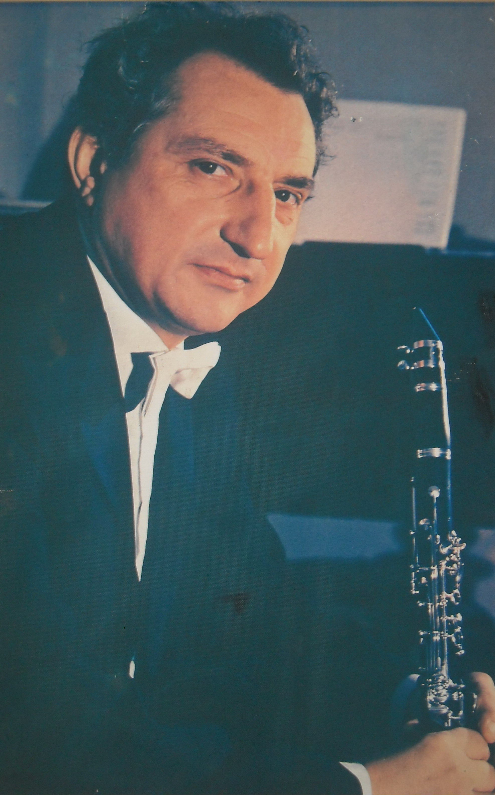 Distinguished Serbian clarinetist Milenko Stefanović, international soloist, long-time principal clarinetist of the Belgrade Philharmonic Orchestra and professor of clarinet at the University of Priština and University of the Arts in Belgrade.